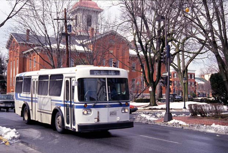 Frederick City Transit bus #207 passing by Frederick City Hall, Frederick, Md, 1993